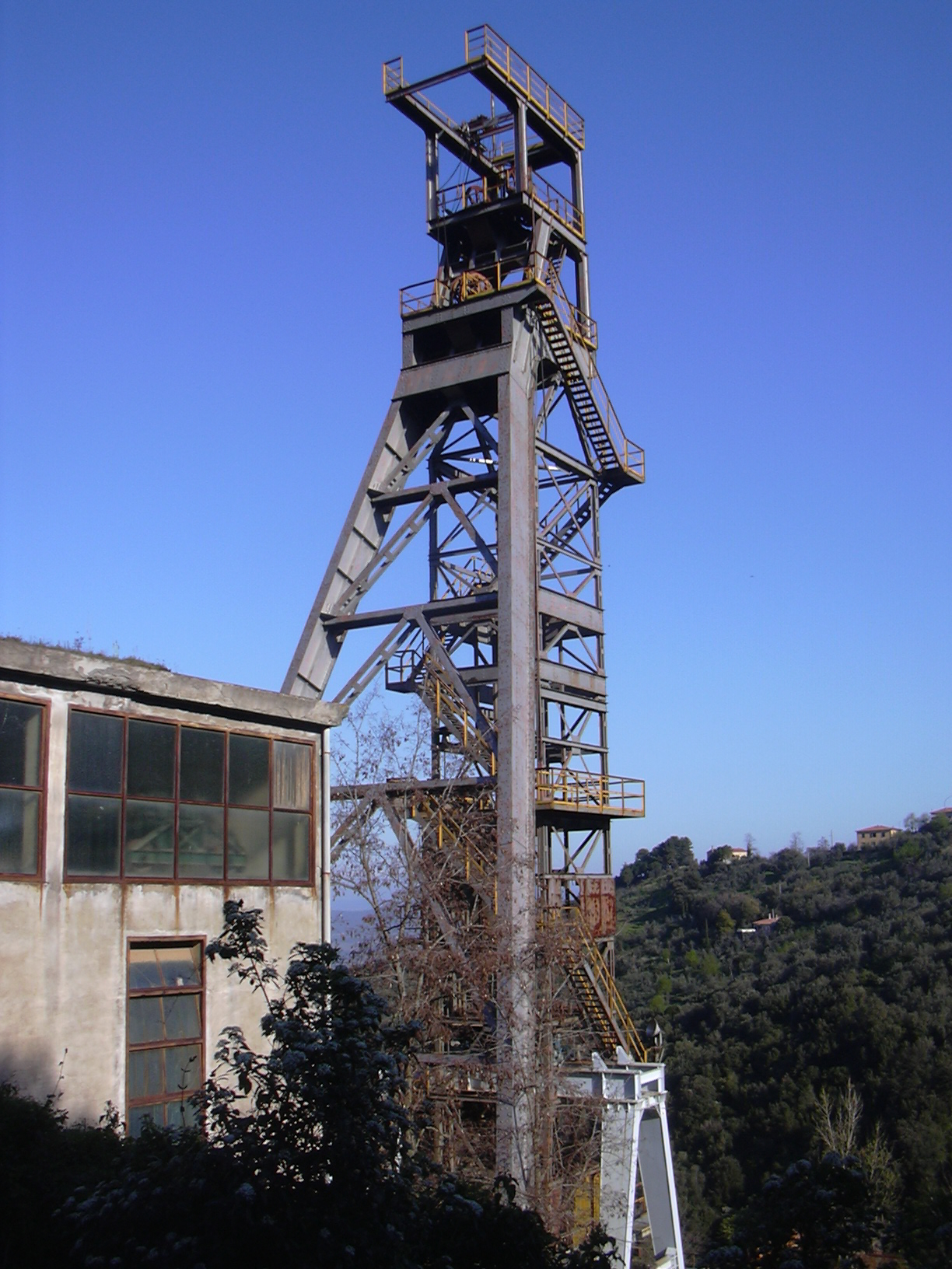 Gavorrano/Tuscany, pyrit mines, tower